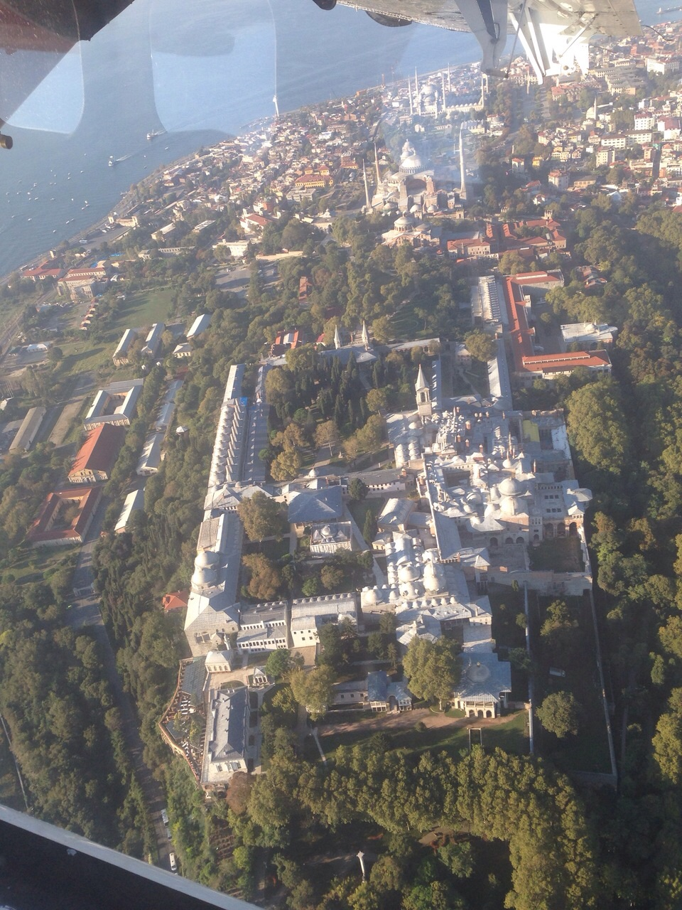 İstanbul, Topkapı Palace, Hagia Irene, Hagia Sophia, Sultan Ahmed Mosque - Oct 2014, View from seaplane